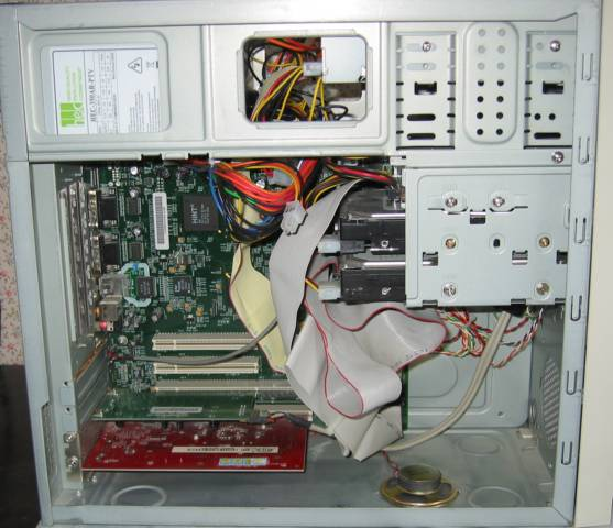 Iyonix with the cover removed.The cabling for the power and IDE ribbon cables is a bit messy and hides much of the motherboard.